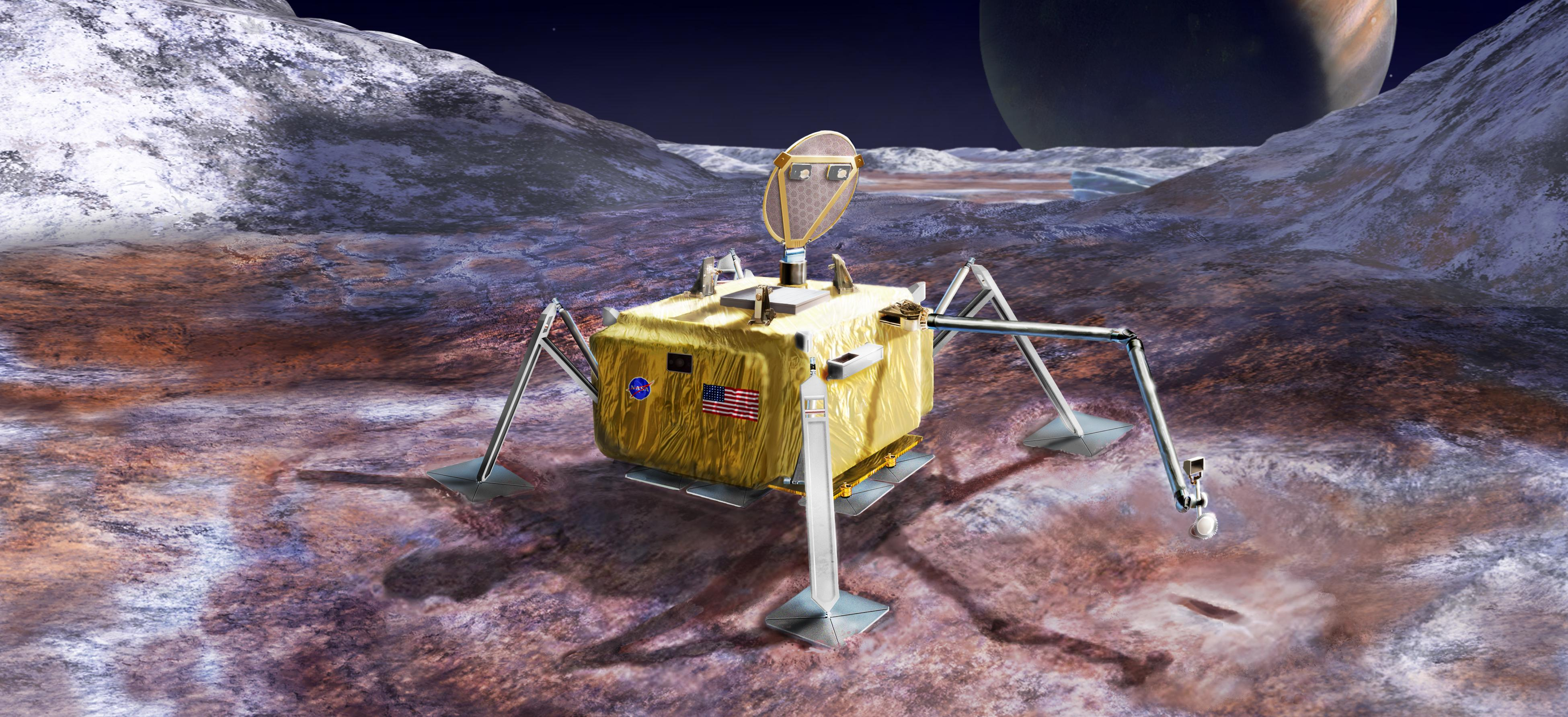 This artist's rendering illustrates a conceptual design for a potential future mission to land a robotic probe on the surface of Jupiter's moon Europa. The lander is shown with a sampling arm extended, having previously excavated a small area on the surface. The circular dish on top is a dual-purpose high-gain antenna and camera mast, with stereo imaging cameras mounted on the back of the antenna. Three vertical shapes located around the top center of the lander are attachment points for cables that would lower the rover from a sky crane, which is envisioned as the landing system for this mission concept. An alternate version of this artwork, with a vertical orientation, is also available (see Figure 1).